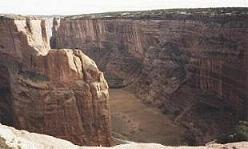 Canyon de Chelly